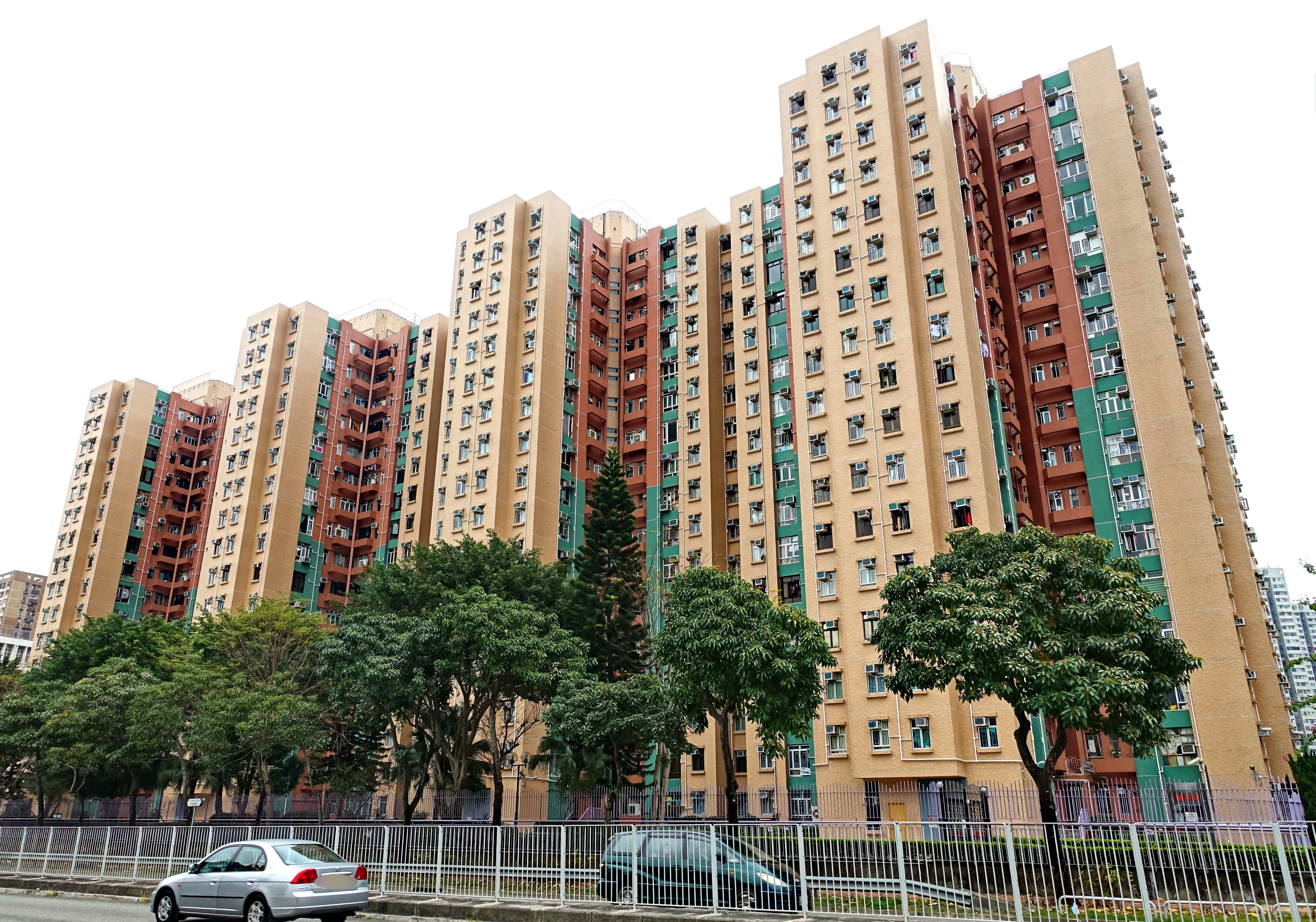 Yue Shing Court, Sha Tin, New Territories, Hong Kong.